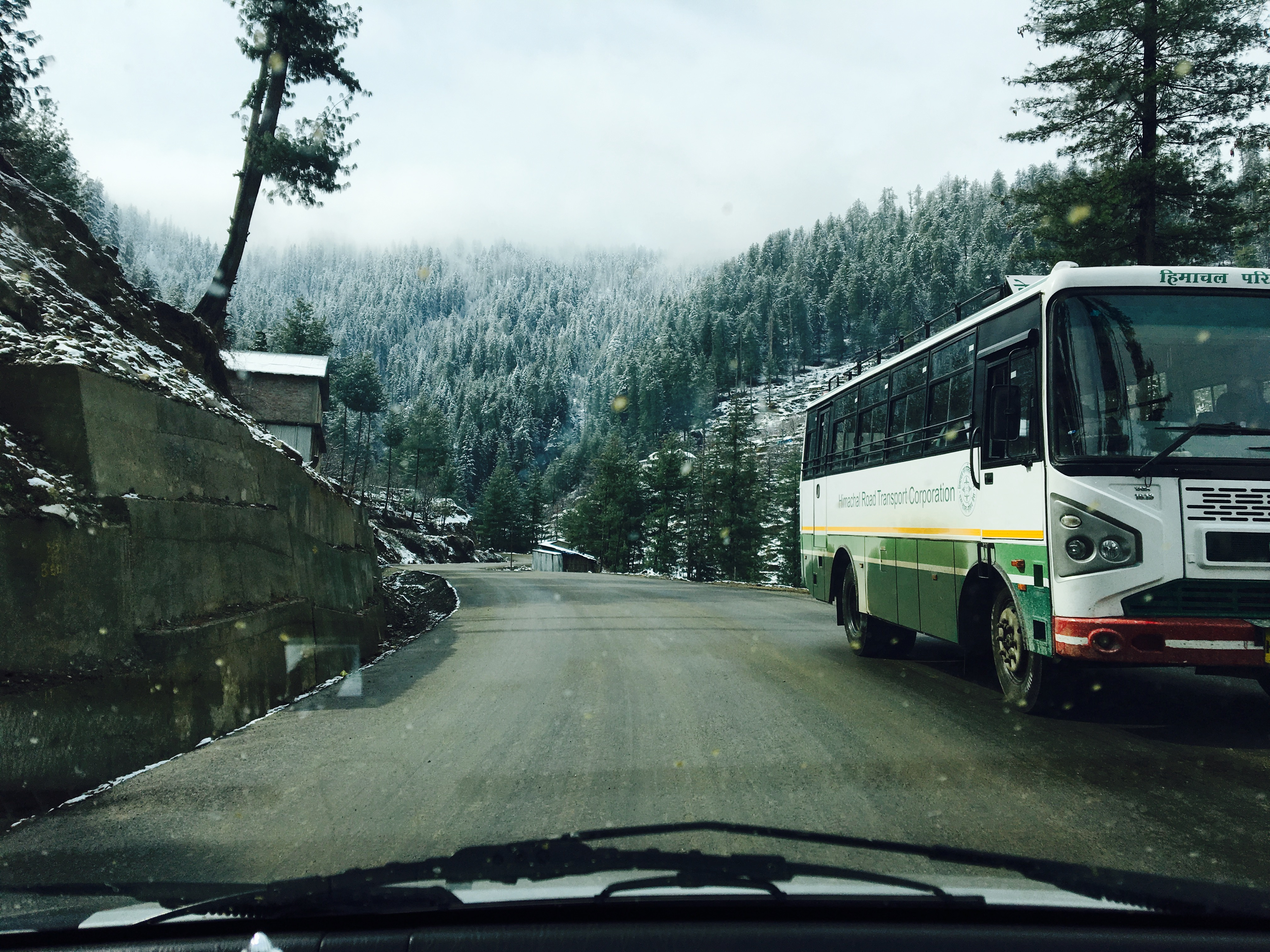 Transport is convenient to Rohru